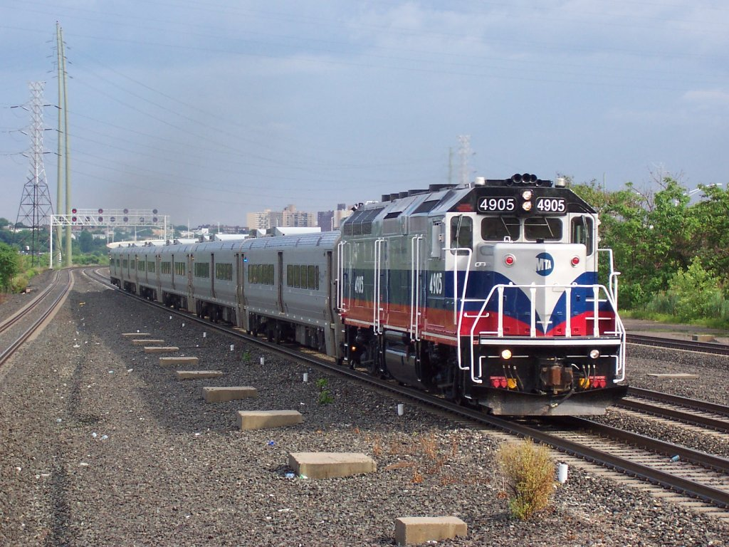 Metro-North Railroad/New Jersey Transit train 53 (engine and 5 of 6 cars owned by Metro-North Railroad) entering Secaucus Junction, bound for Port Jervis. The engine is GP40FH-2 #4905 (ex-4189 prior to overhaul, Union Pacific Railroad (nee Missouri Pacific Railroad (MoPac)) 626 and Chicago, Rock Island and Pacific Railroad 368).